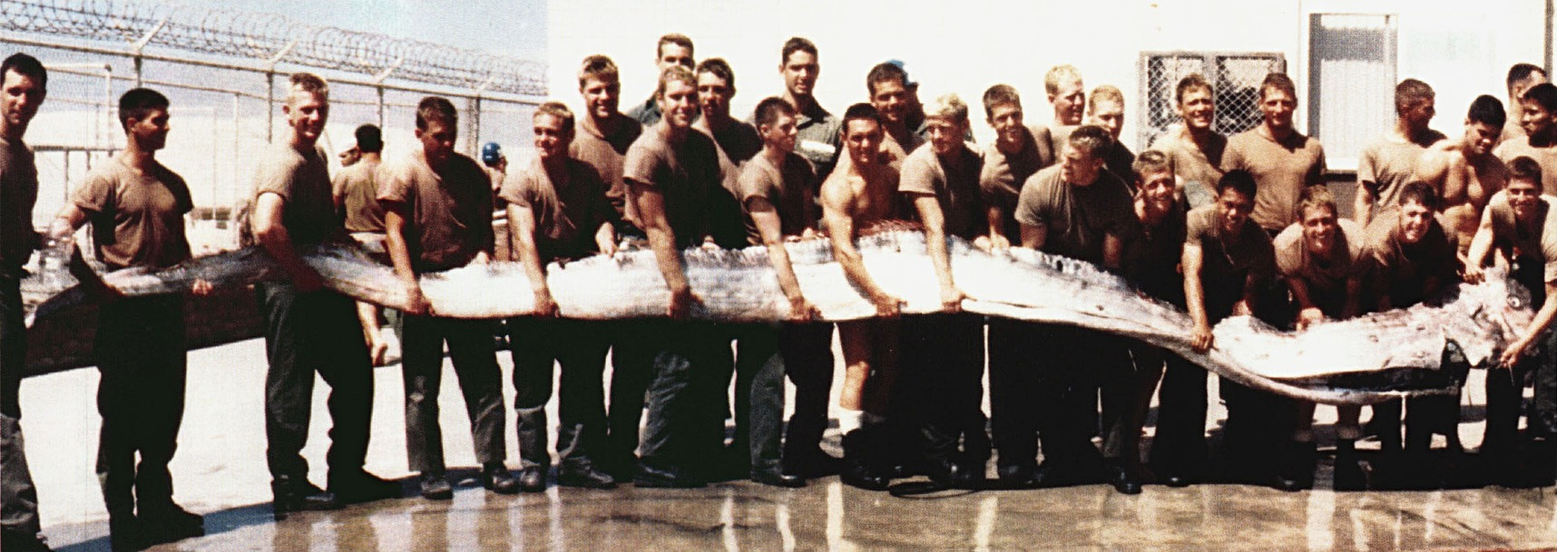 This photograph was alleged to show U.S. servicemen in Laos during the Vietnam War with a captured Mekong Dragon, Phaya Naga, Mekong Naga, or enormously overgrown eel. It was widely circulated in Laos ([1]). The photograph was actually taken in 1996 and shows a giant oarfish (Regalecus glesne) found on the shore of the Pacific Ocean near San Diego, California. This extremely rare specimen was 23 ft (7.0 m) long and weighed 300 lb (140 kg). The original photograph can be seen on page 20 of the April 1997 issue of All Hands.